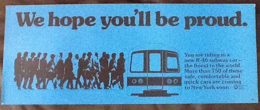 This is a poster talking about the new R46 subway cars.